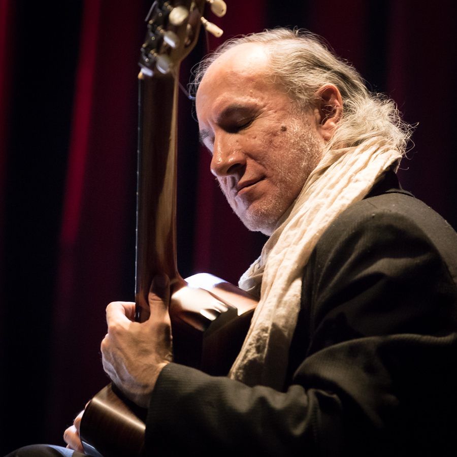 Quique Sinesi in concert with Pablo Ziegler at Cosmopolite. The concert took place on 11. March 2017 in Oslo. Lineup:Pablo Ziegler (piano)Quique Sinesi (guitar)Walter Castro (bandoneon)